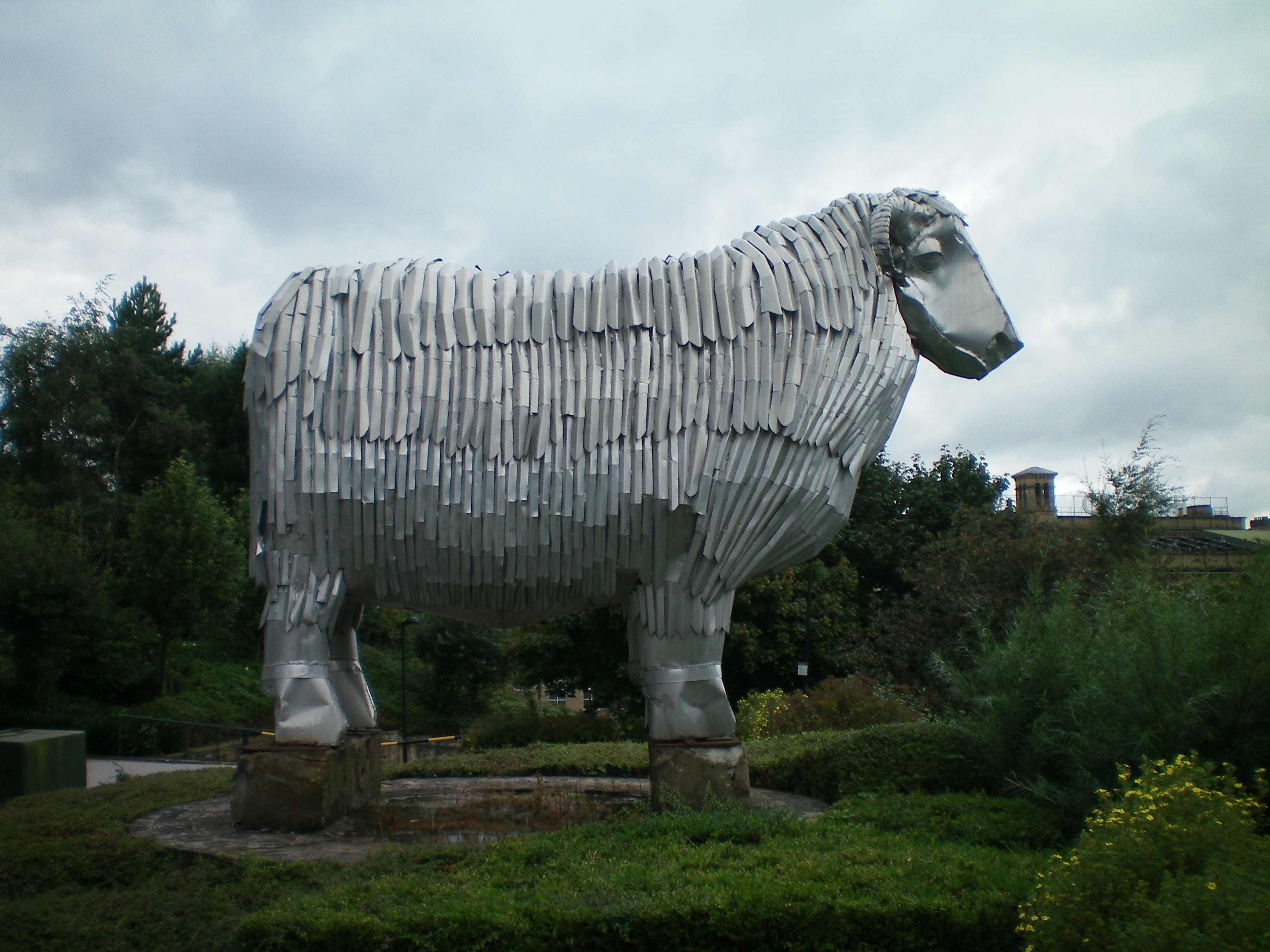 Sheep sculpture at Dean Clough, former carpet mills at Halifax, West Yorkshire, England.